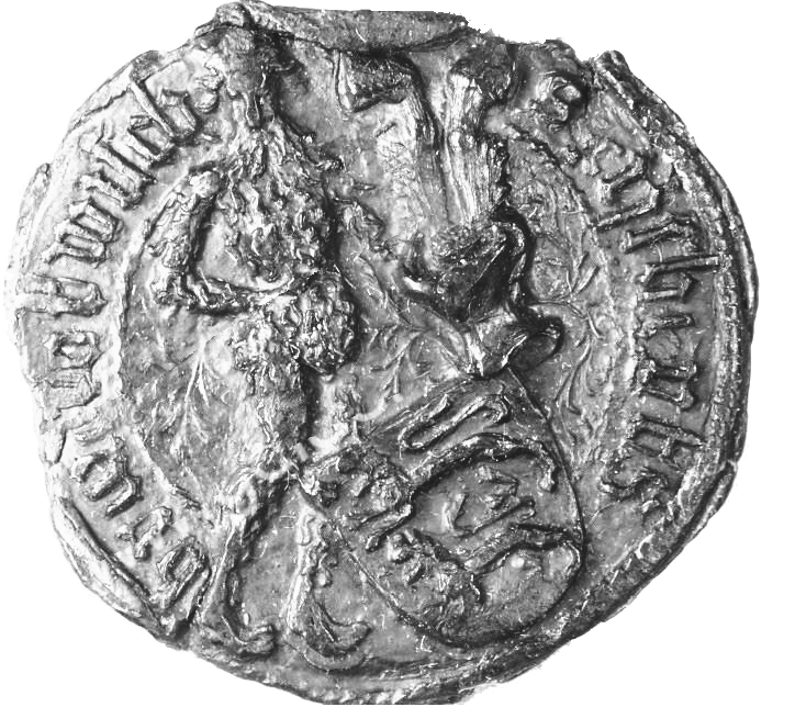 Seal of Wisch